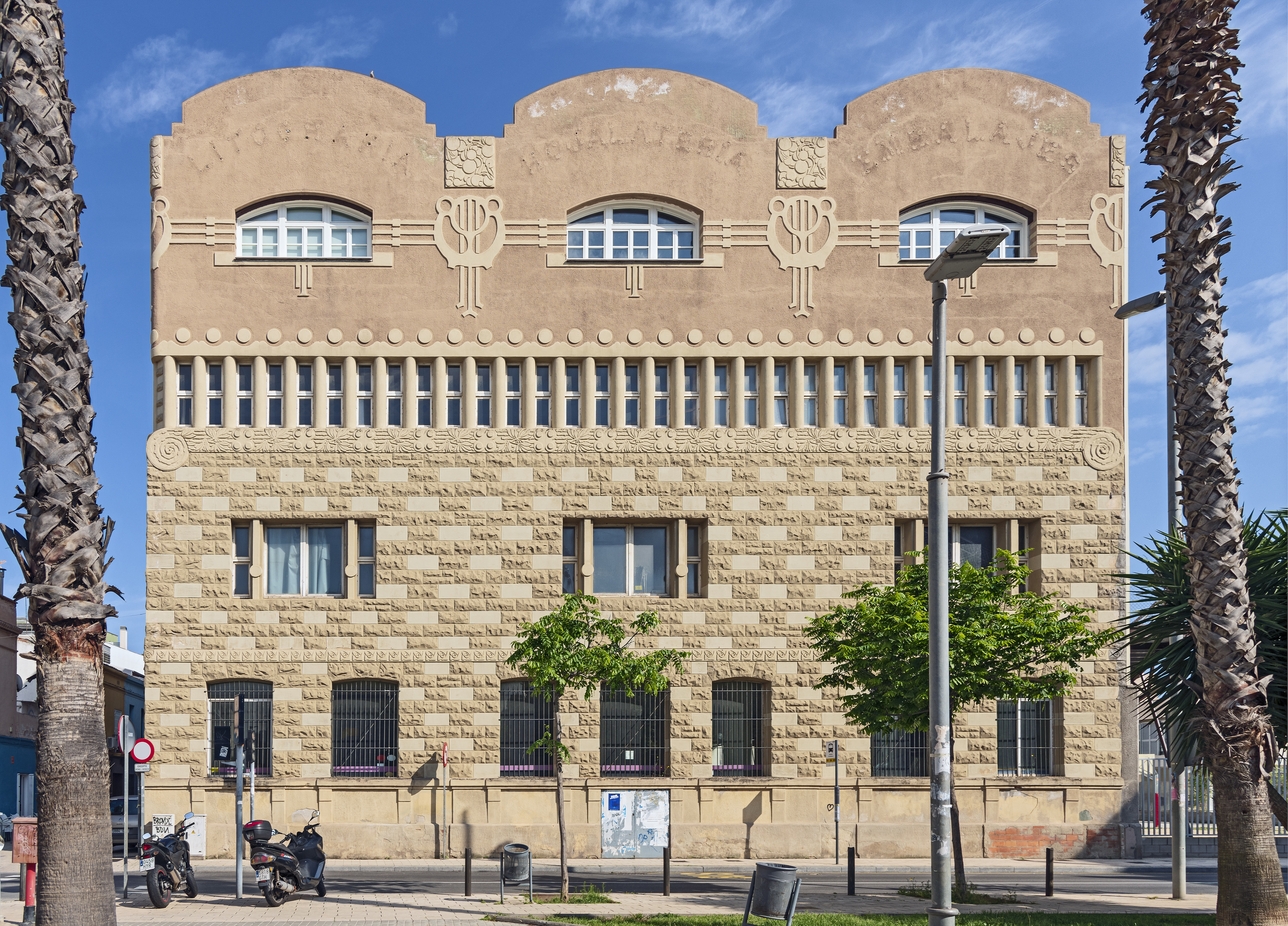 The metallic packaging factory of Gottardo de Andreis, popularly known as "la Llauna", is the work of Joan Amigó Barriga in 1909, located at Badalona (Catalonia). On the side of the road there are some mosaics with shields made by Lluís Bru.